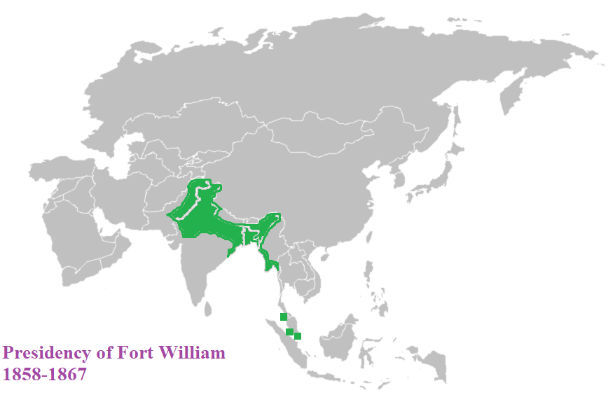 Map showing the jurisdiction of the Presidency of Fort William between 1858 and 1867. The Presidency was a subdivision of the British Empire covering north India, Bengal, parts of Burma, Singapore and Penang. The Presidency was based in Calcutta, the de facto capital of British India.